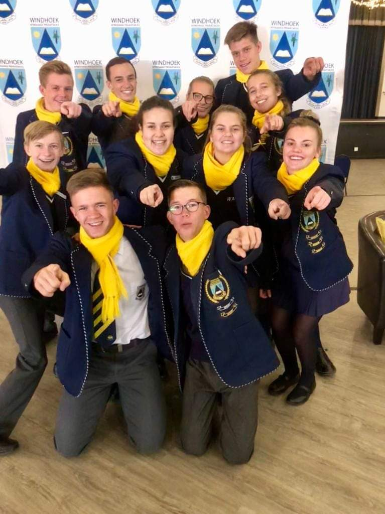 These children helped represent WAP